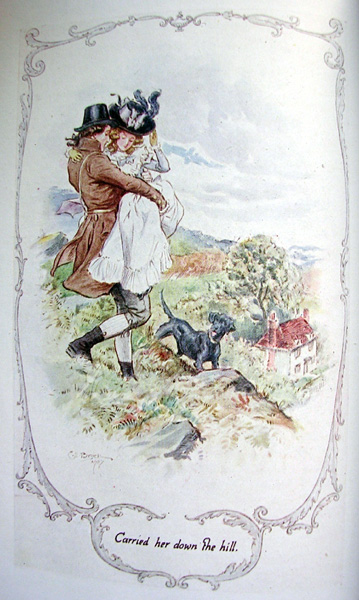 in ch. 9 of Sense and Sensibility (Jane Austen Novel) Willoughby comes to Marianne rescue, and carries her home